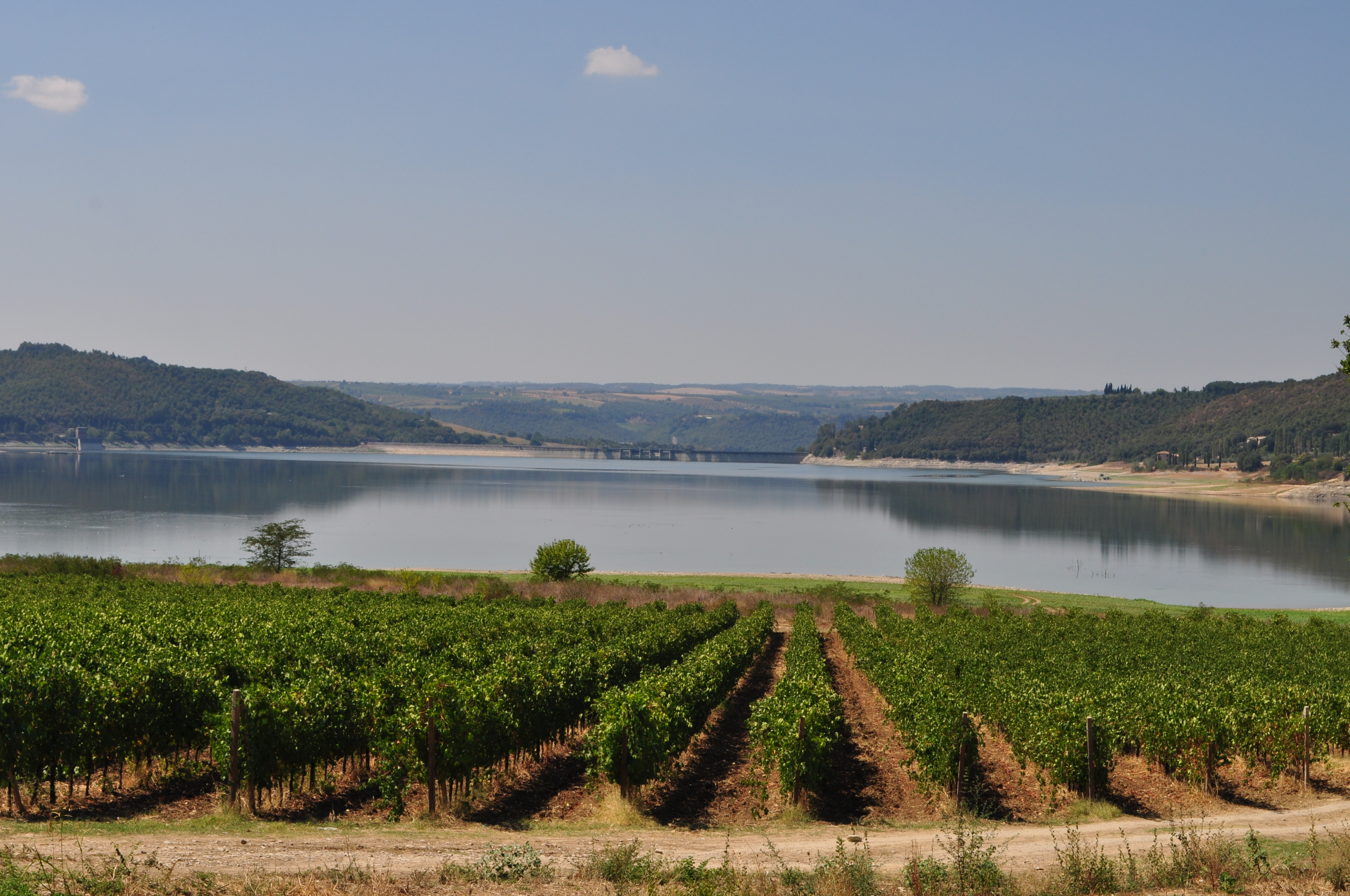 Lake of Corbara